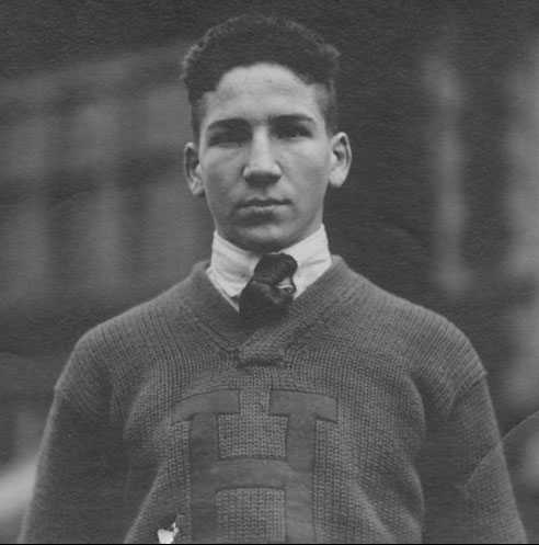 Albert Kirwan, seventh president of the University of Kentucky. This picture shows him as captain of his high school football team